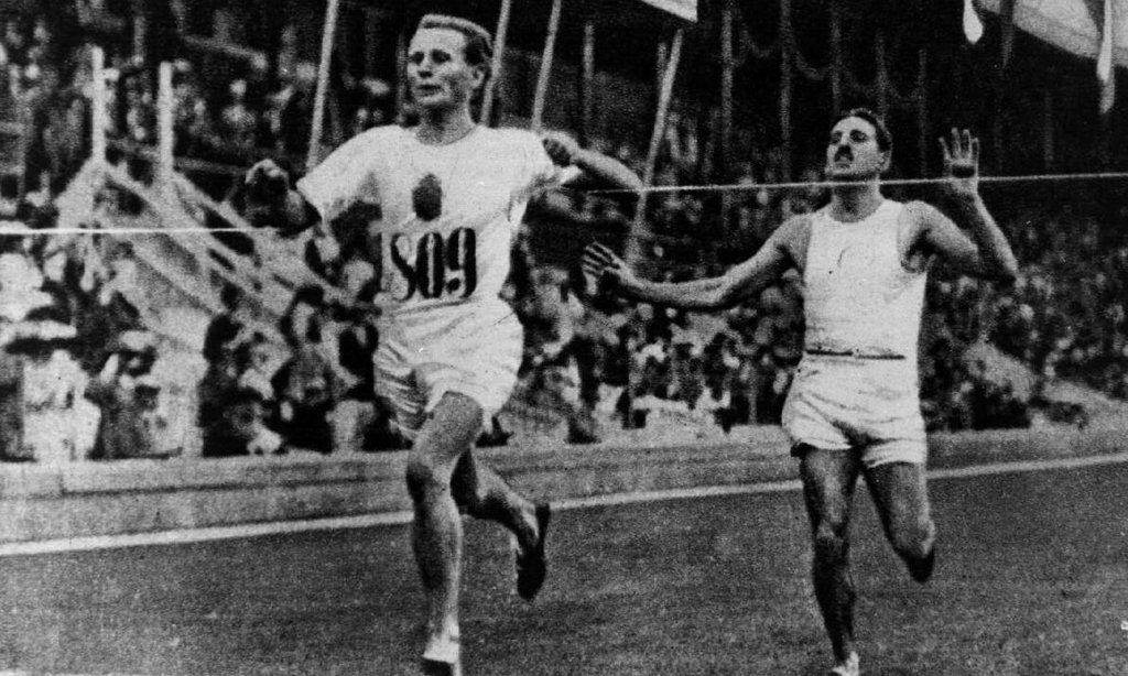 5000 m JO Stockholm 1912 : Bouin battu sur le fil origine de l'image : the Official Report of the Olympic Games of Stockholm 1912. Domaine public : le copyright a expiré